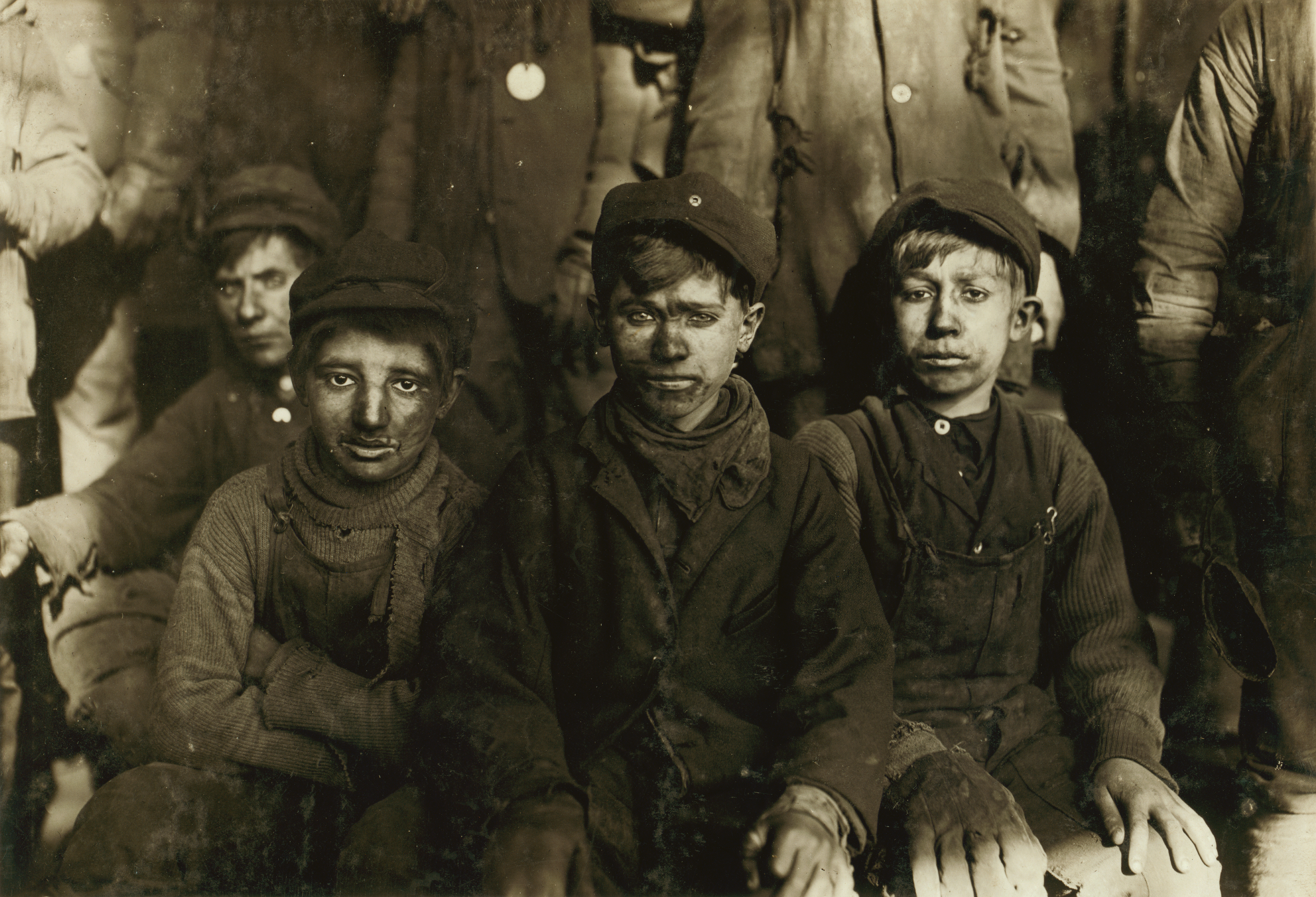 Group of Breaker boys. Smallest is Sam Belloma, Pine Street. (See label #1949). Location: Pittston, Pennsylvania.